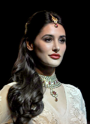 Nargis Fakhri walks for Ritu Kumar at LFW 2013